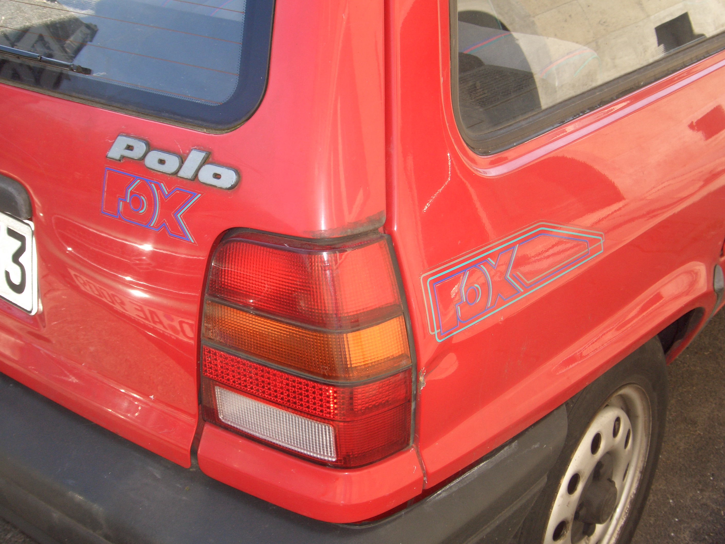 VW Polo (Gen II 86C, 1981-1994), special edition FOX, right rear end